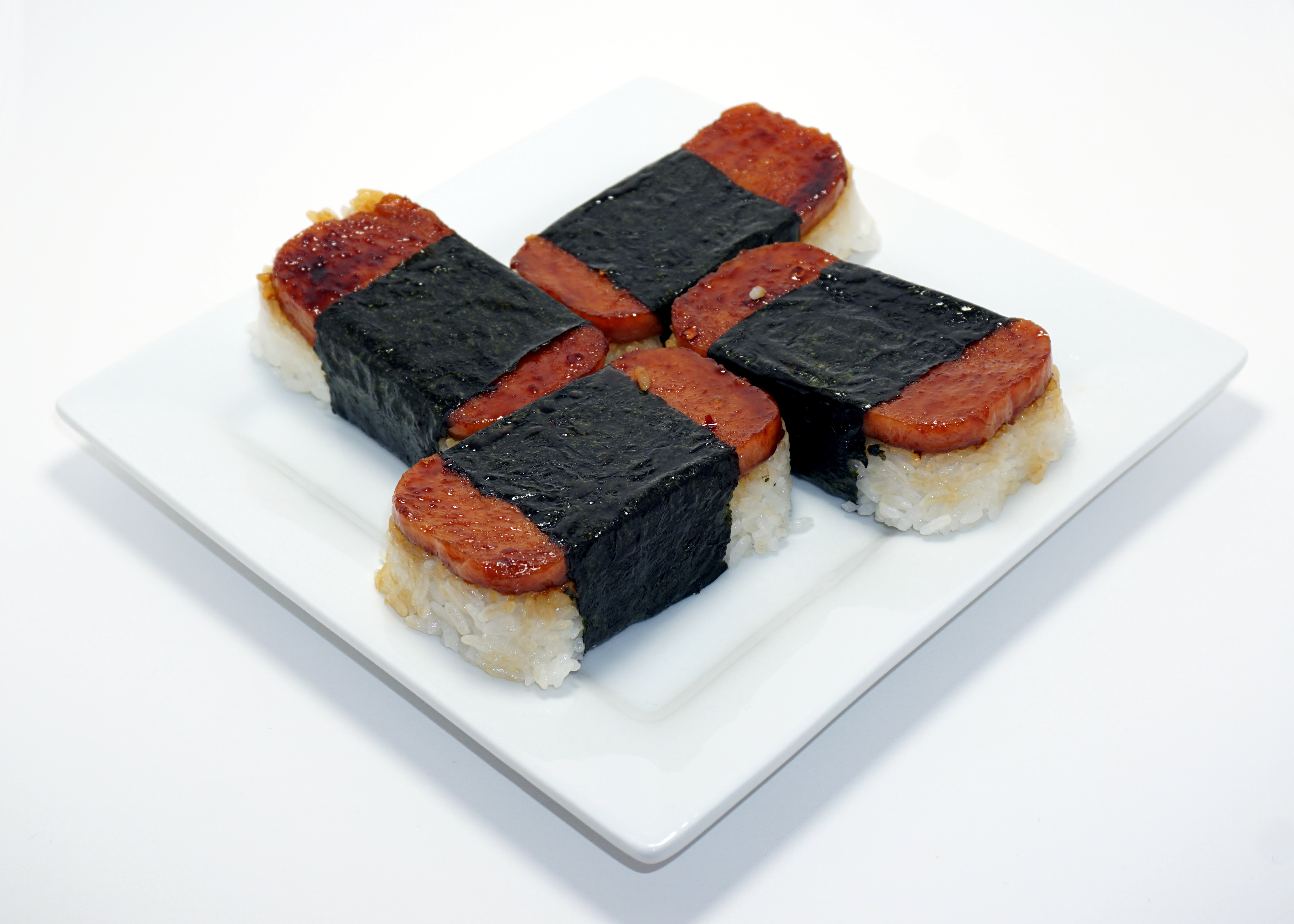 A plate of freshly made Spam musubi.